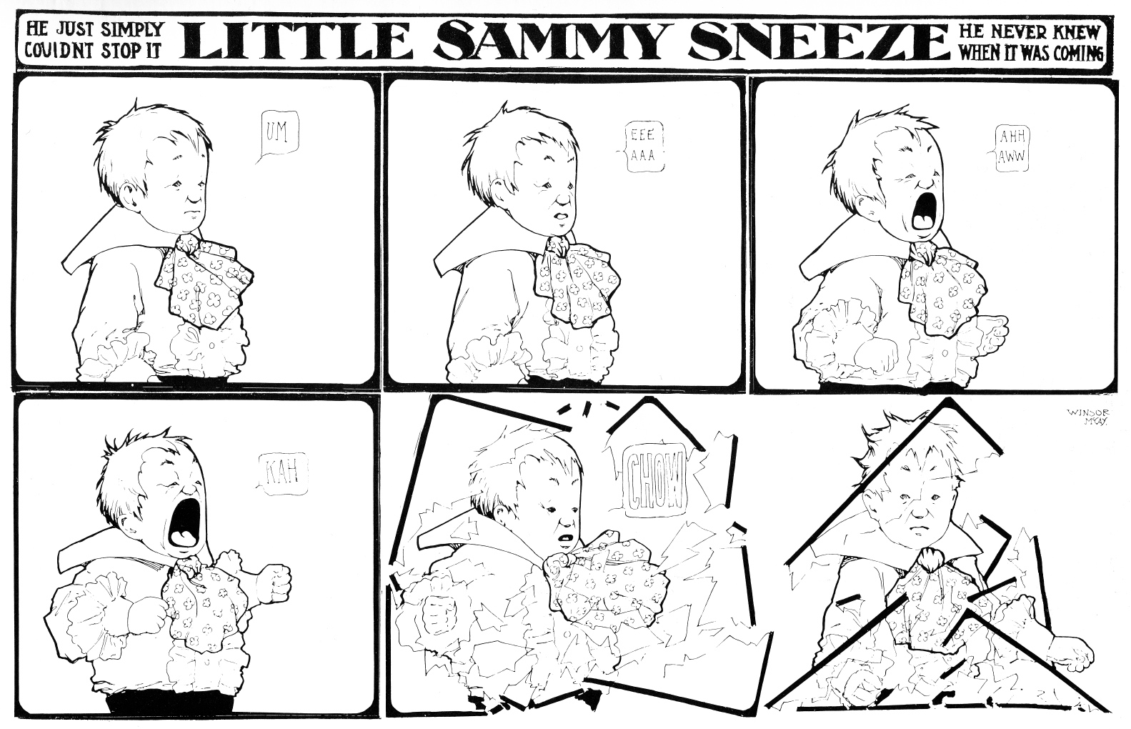 An episode of the Little Sammy Sneeze comic strip by American cartoonist Winsor McCay. In this strip Sammy destroys the comic strip panels with his sneeze.